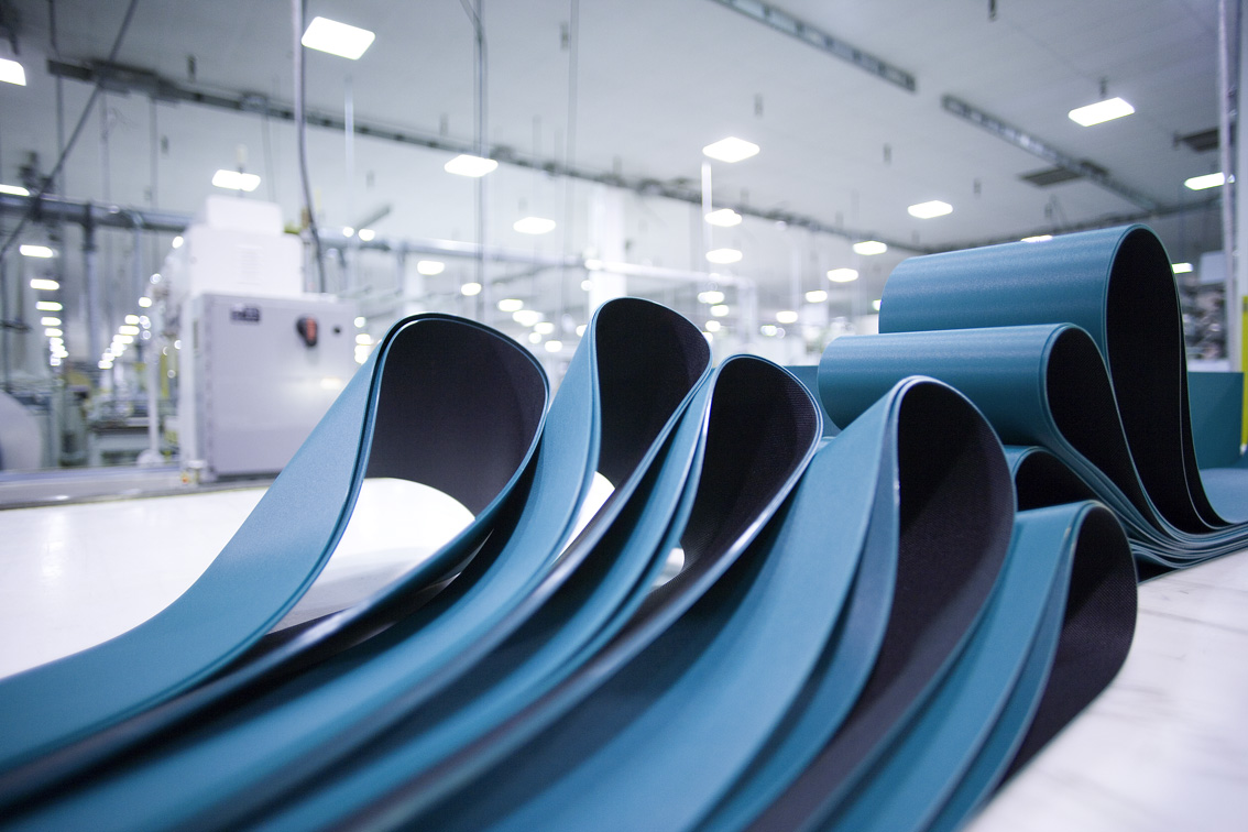 Flat belts